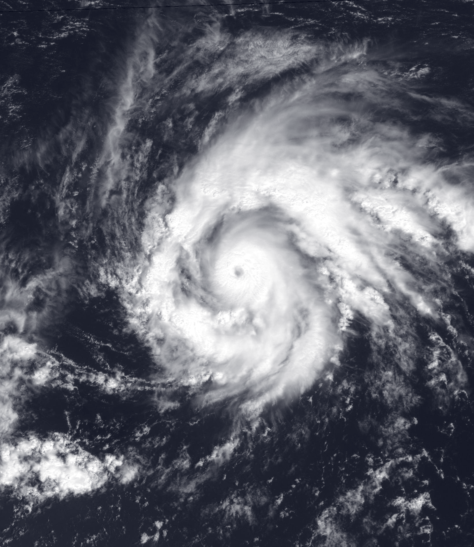 Hurricane Isidore intensifying over the Atlantic Ocean on September 27, 1996